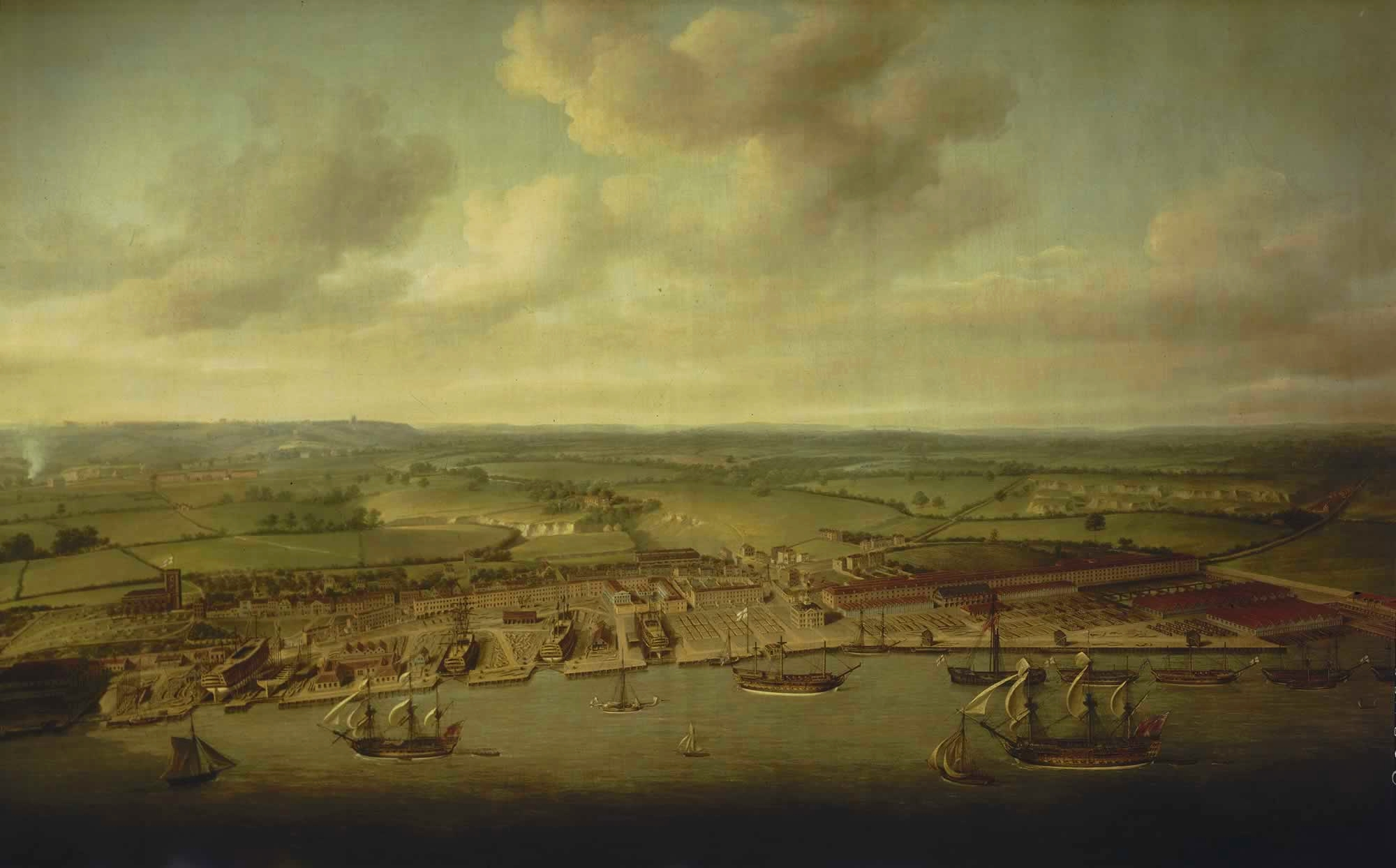 Woolwich Dockyard was an English naval dockyard. The dockyard was built in 1514 by Henry VIII for the construction of his famous ship 'Harry Grace a Dieu'. Royal Navy vessels were built at the yard until its closure in 1869. This view, by Nicholas Pocock, gives an indication of the scale of the enterprise by the late 18th century. The area around the dockyard was known as the Warren and consisted of workshops, warehouses, timber yards, barracks, foundries and the nearby Royal Arsenal.